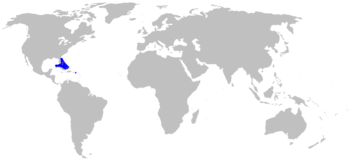 Distribution map for Scyliorhinus torrei